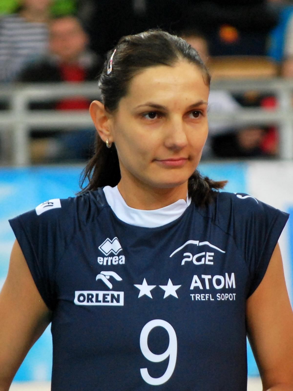 Brižitka Molnar, volleyball player from Serbia